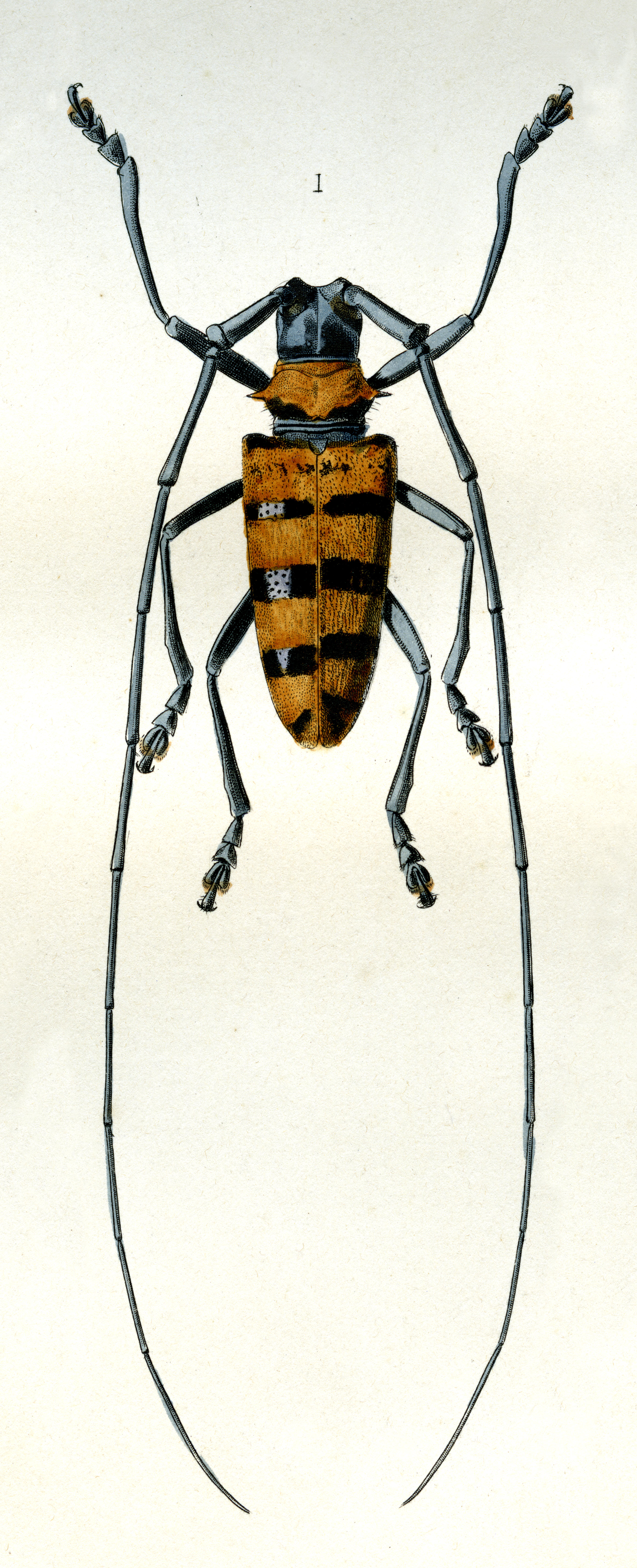 Nemophas grayii Pascoe, a longhorn beetle (Cerambycidae: Lamiinae: Lamiini) from Indonesia [Maluku Islands (Moluccas)].